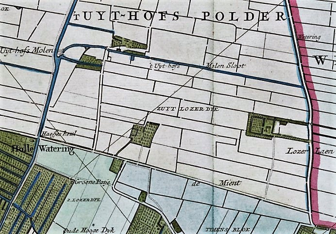 Southern part of Uithofspolder with Vrederust farm on the right.